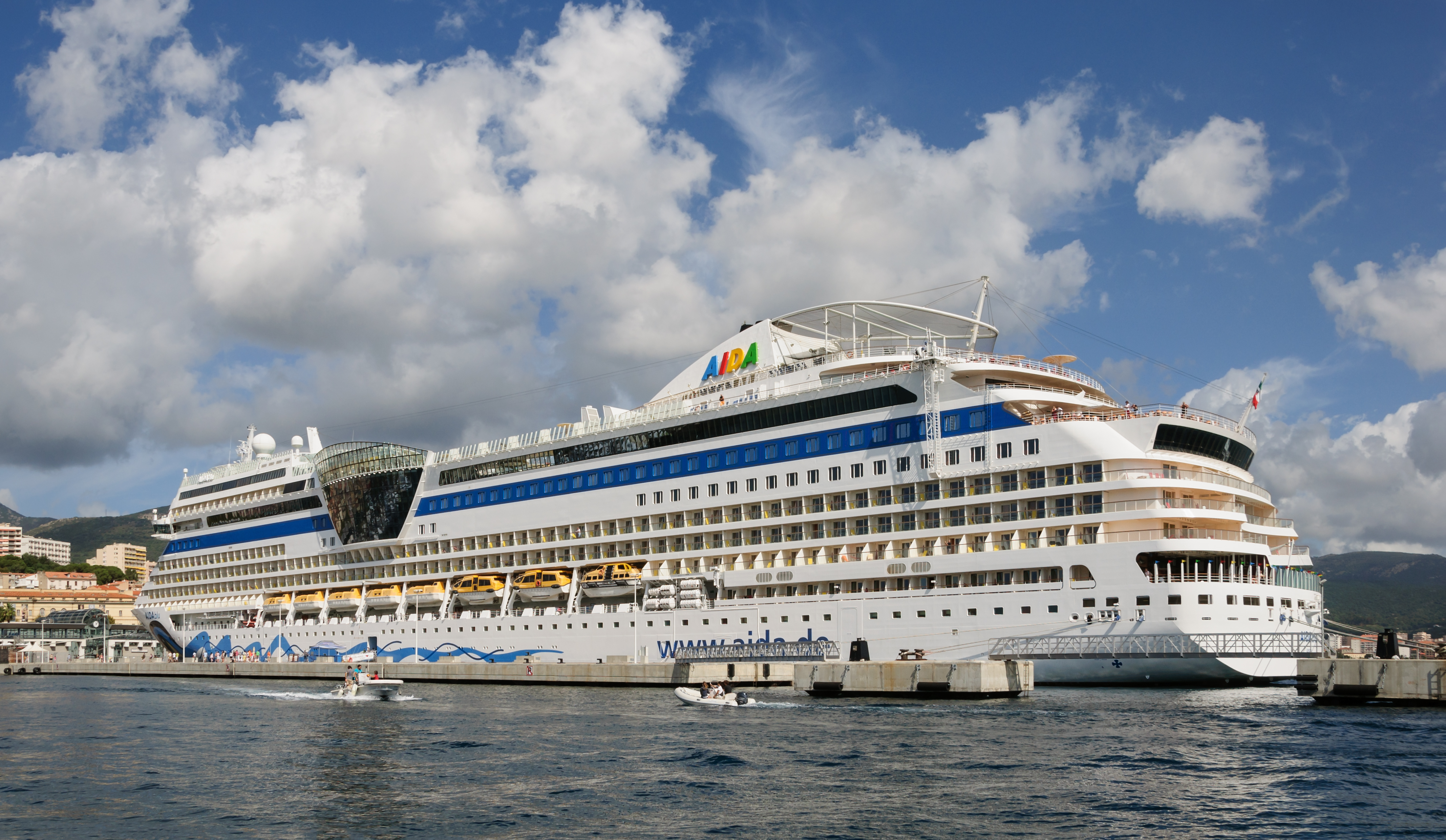 AIDAblu, a cruise ship of the fleet of AIDA Cruises, in the port of Ajaccio, Southern Corsica, France